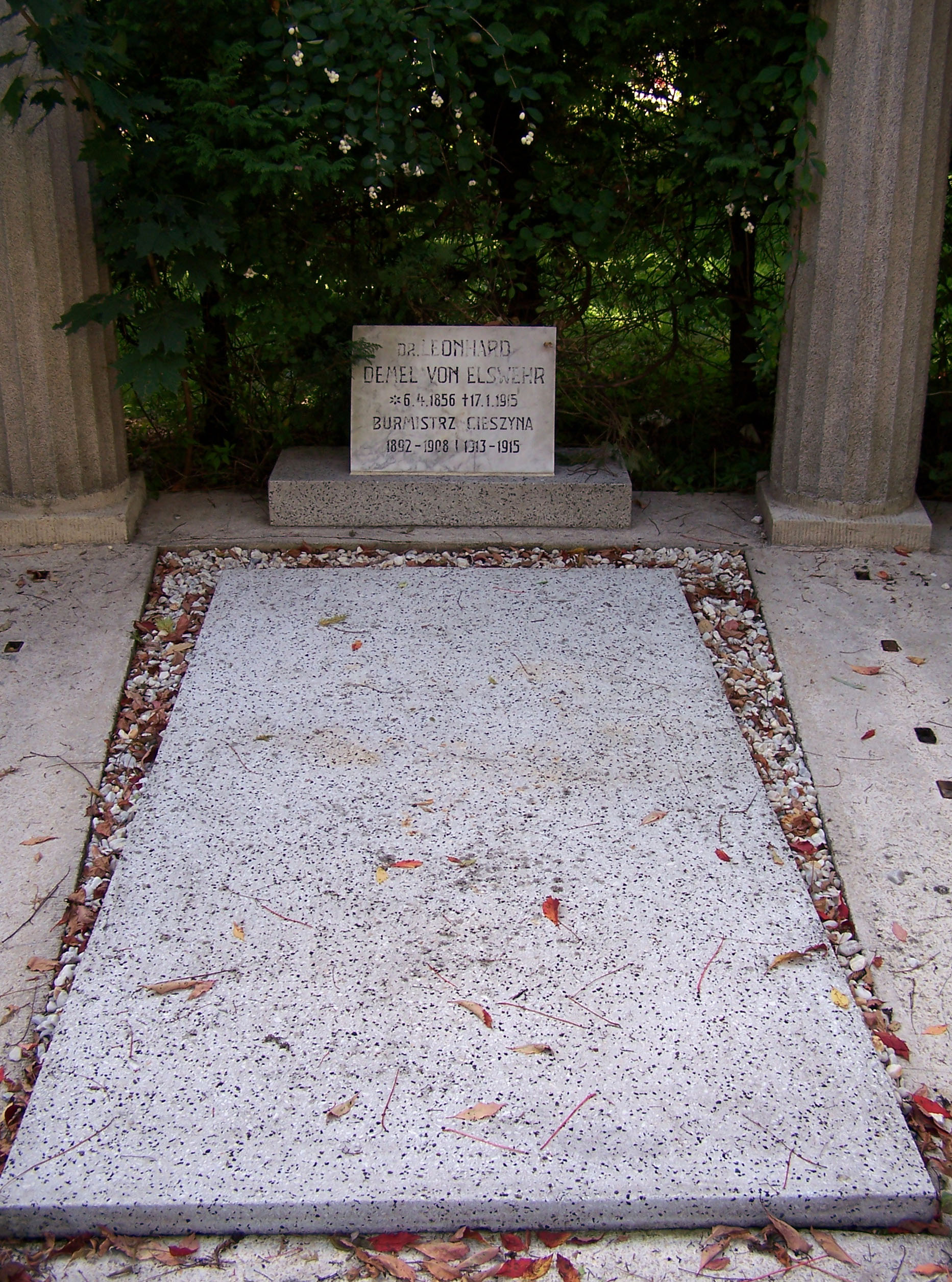 Grave of Leonhard Demel von Elswehr at the Communal Cemetery in Cieszyn, Poland